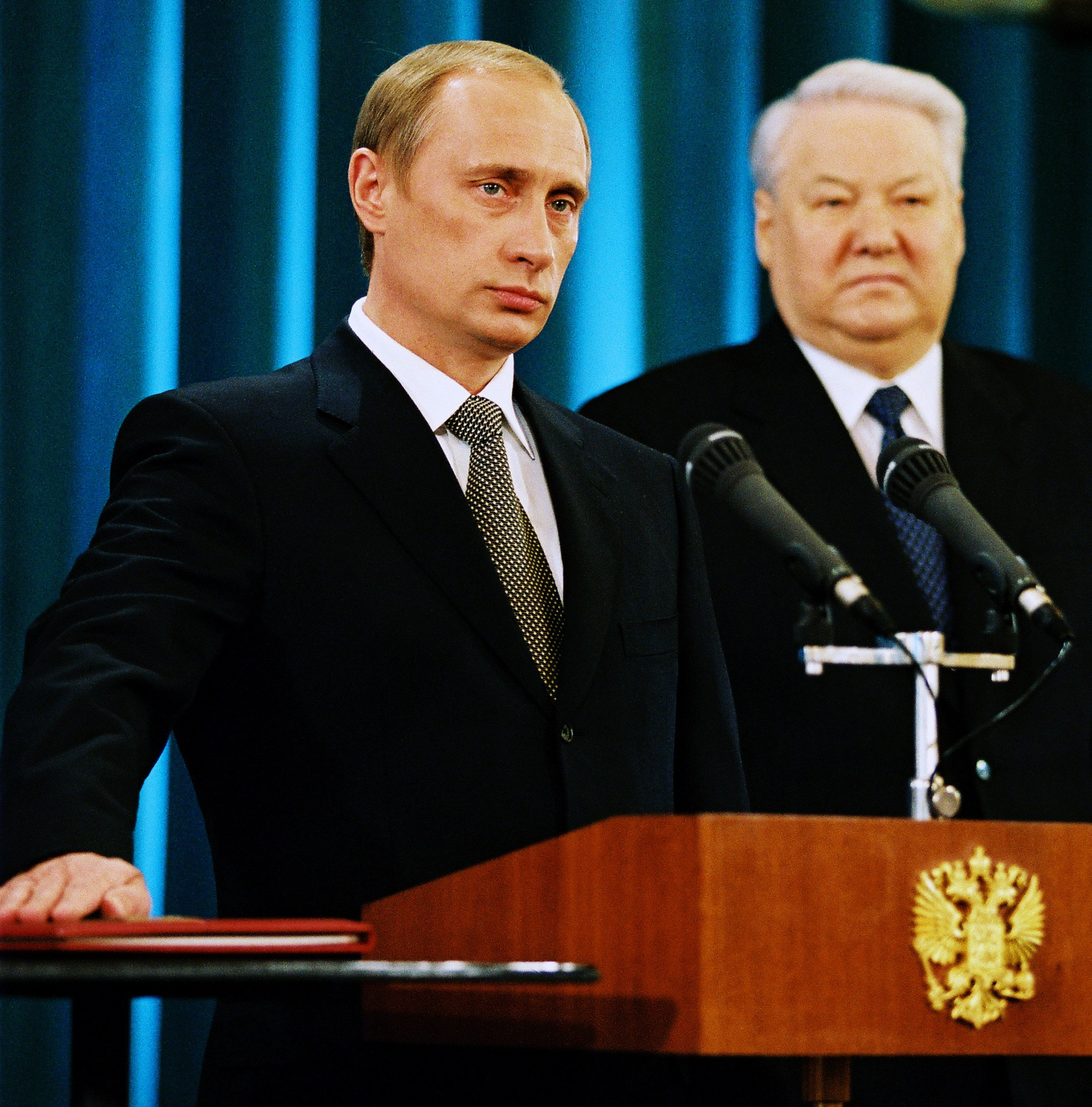 ST ANDREW HALL IN THE GRAND KREMLIN PALACE, MOSCOW. The inauguration of President Vladimir Putin. Mr Putin takes the oath to the people of Russia.